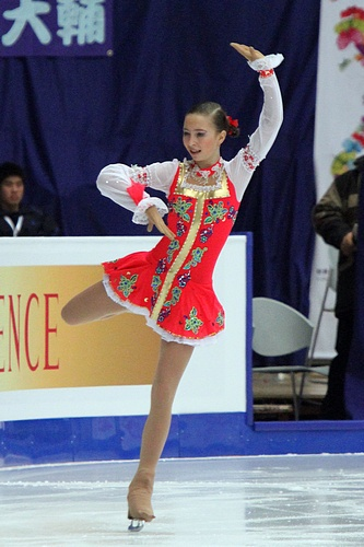 Polina Shelepen at the 2010-2011 ISU Junior Grand Prix Final.